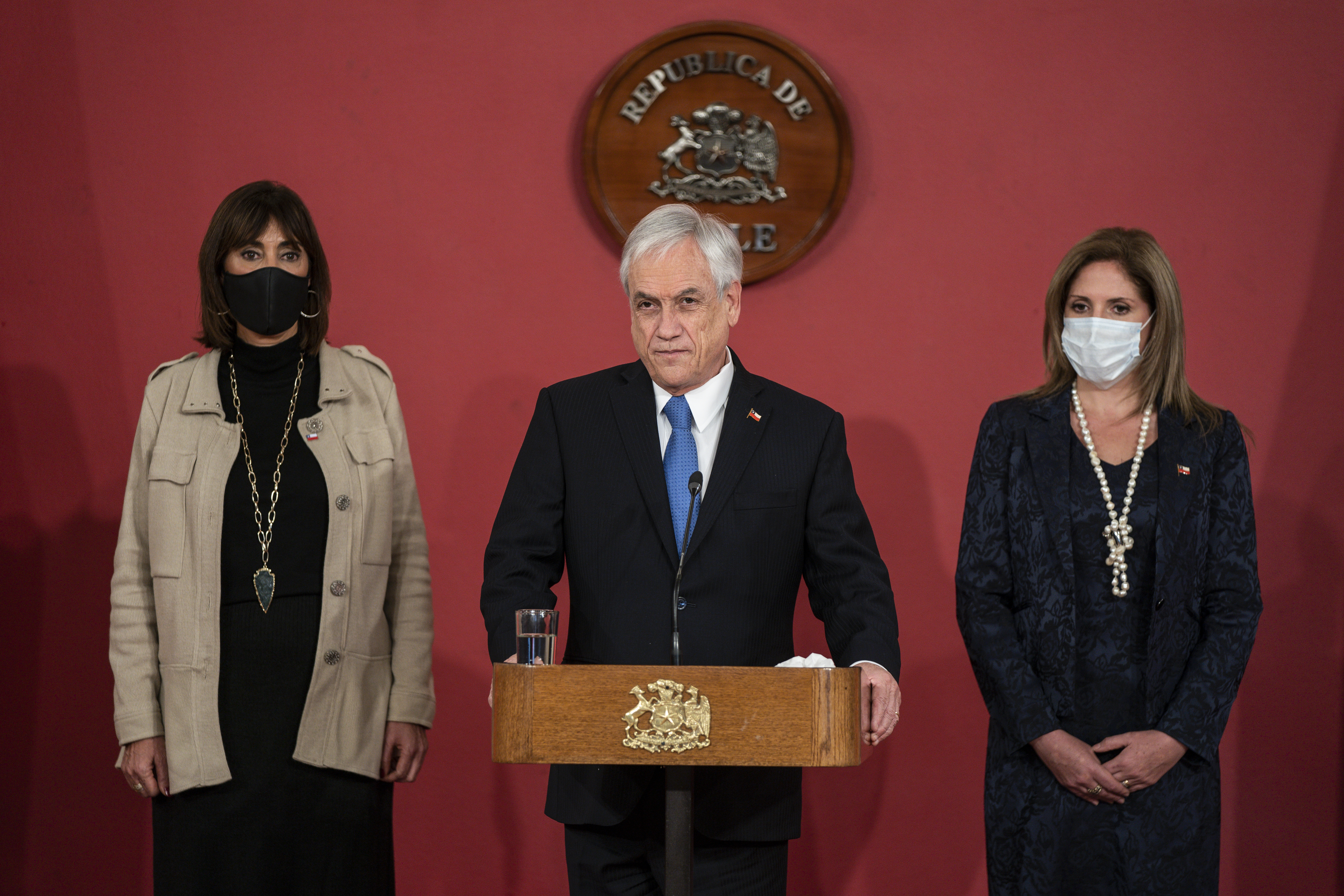 President Piñera appoints Mónica Zalaquett as the new Minister for Women and Gender Equity: "Chile is going to be a better country when we succeed in banishing all discrimination"